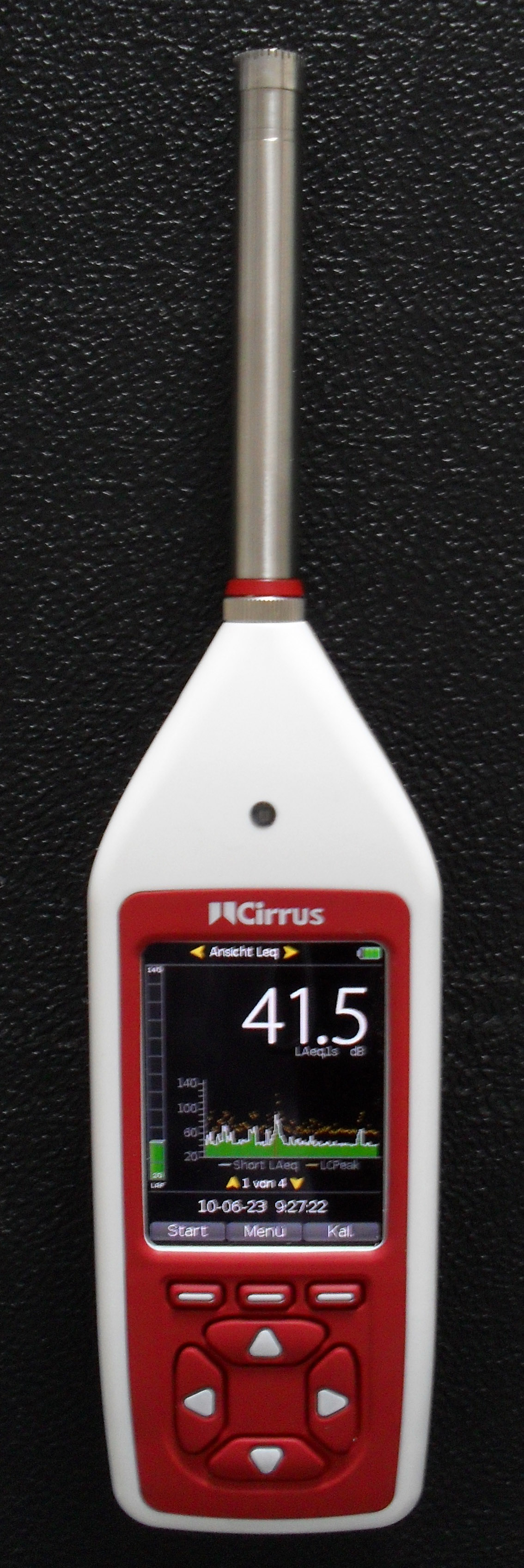 Modern, Single Range (120dB) Sound Level Meter